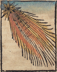 Woodcut from the Nuremberg Chronicle (Latin edition in Sao Paulo)